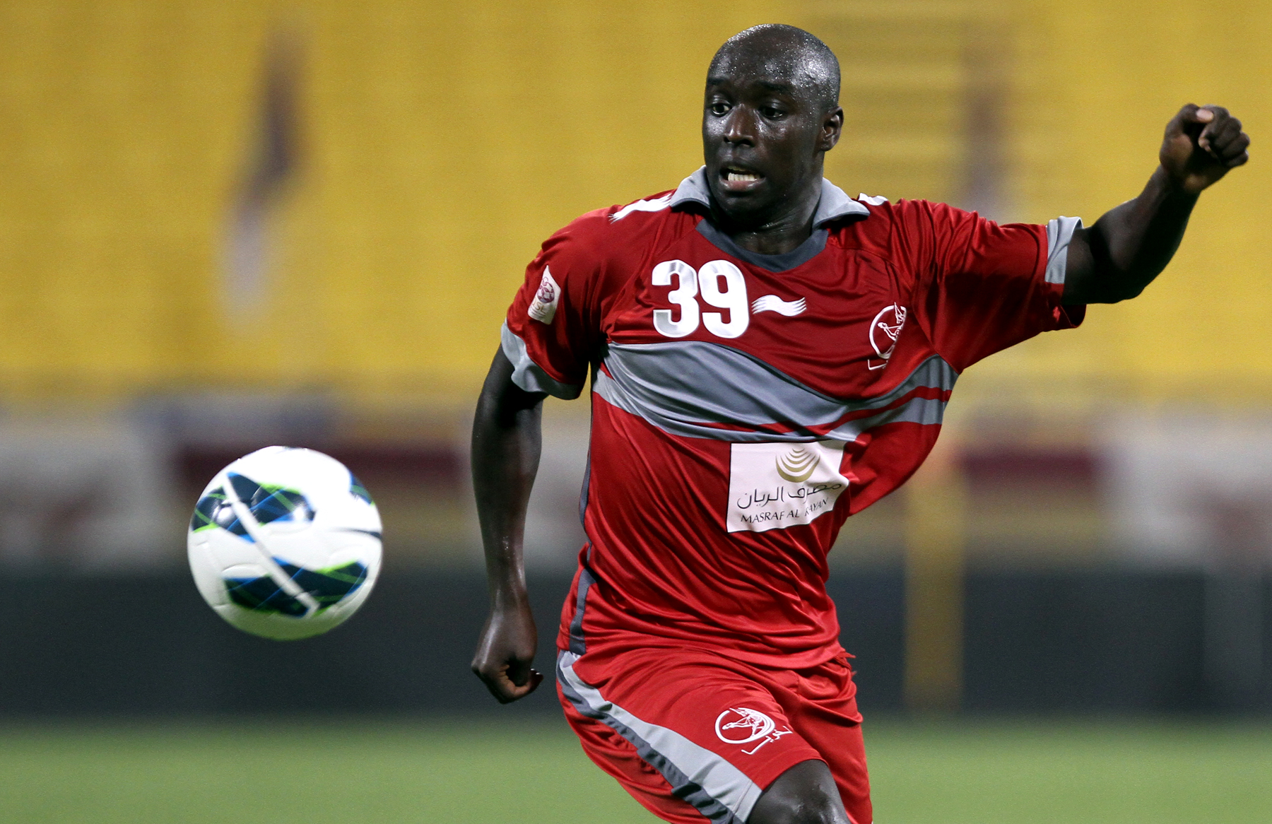 Lekhwiya's Senegalese professional Issiar Dia controls the ball during a Qatar Stars League match. Picture by Vinod Divakaran